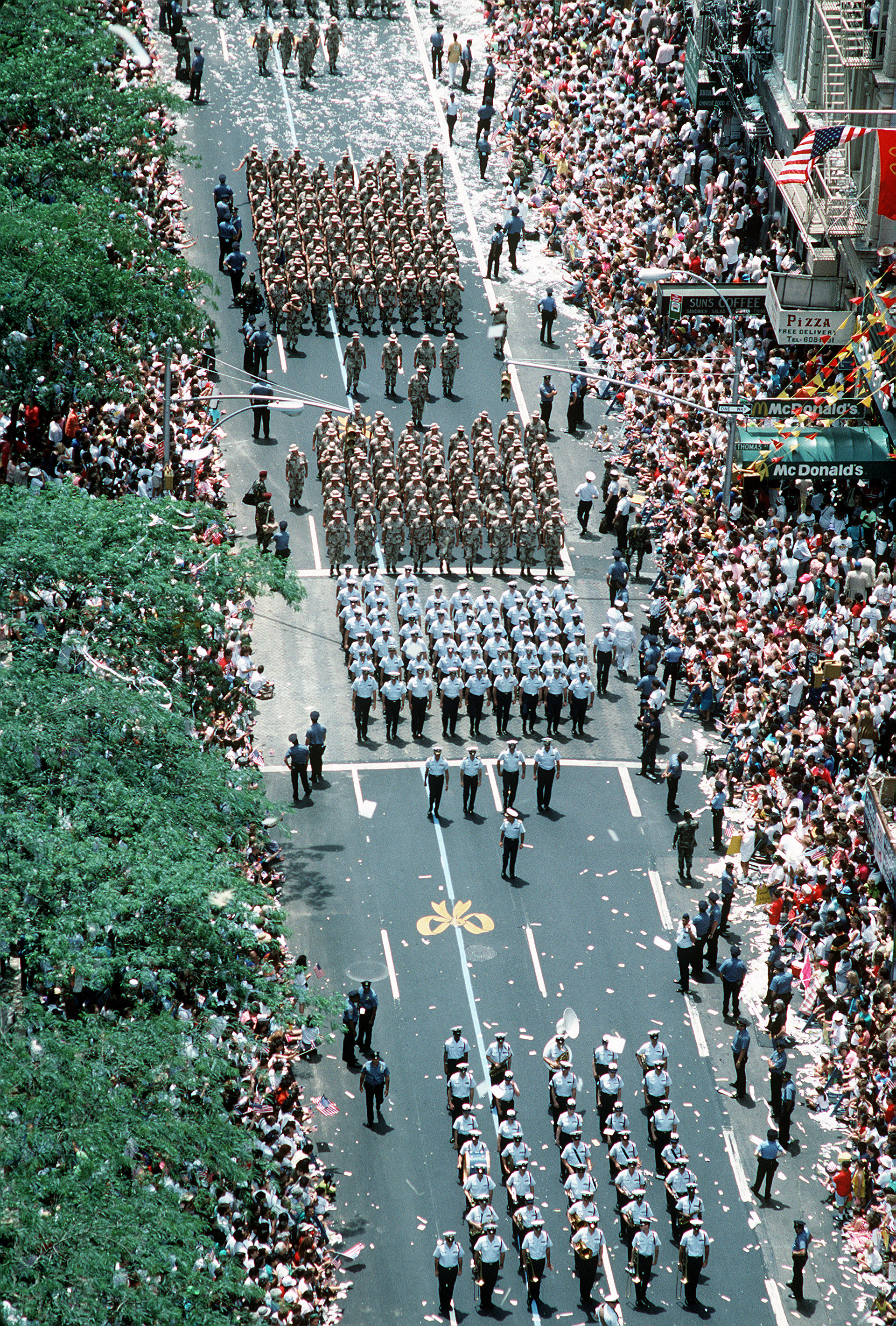 Soldiers, sailors, marines and airmen who participated in Desert Storm march in the Welcome Home parade in New York City, NY